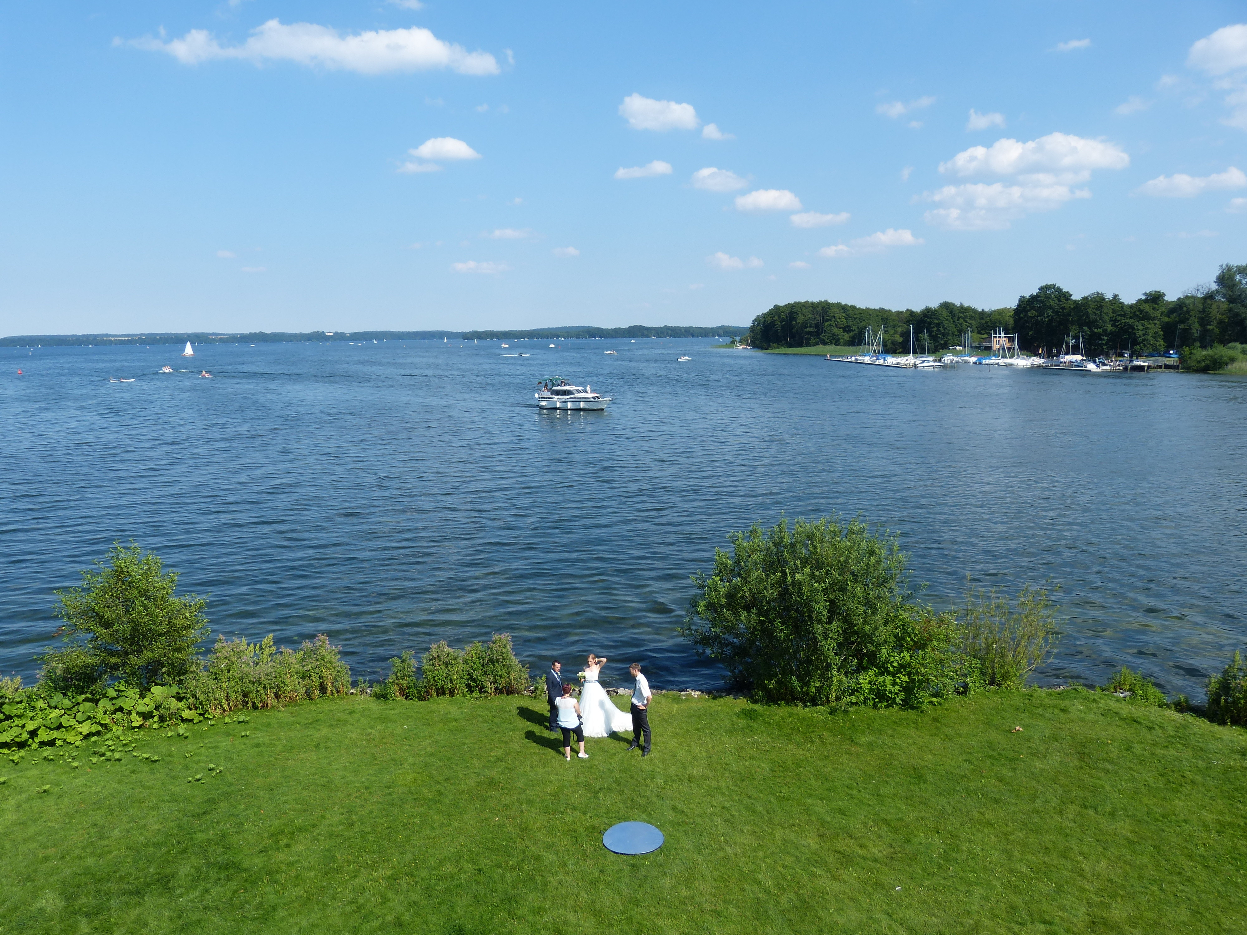 Schwerin Castle ( Mecklenburg ). View to Schwerin lake.